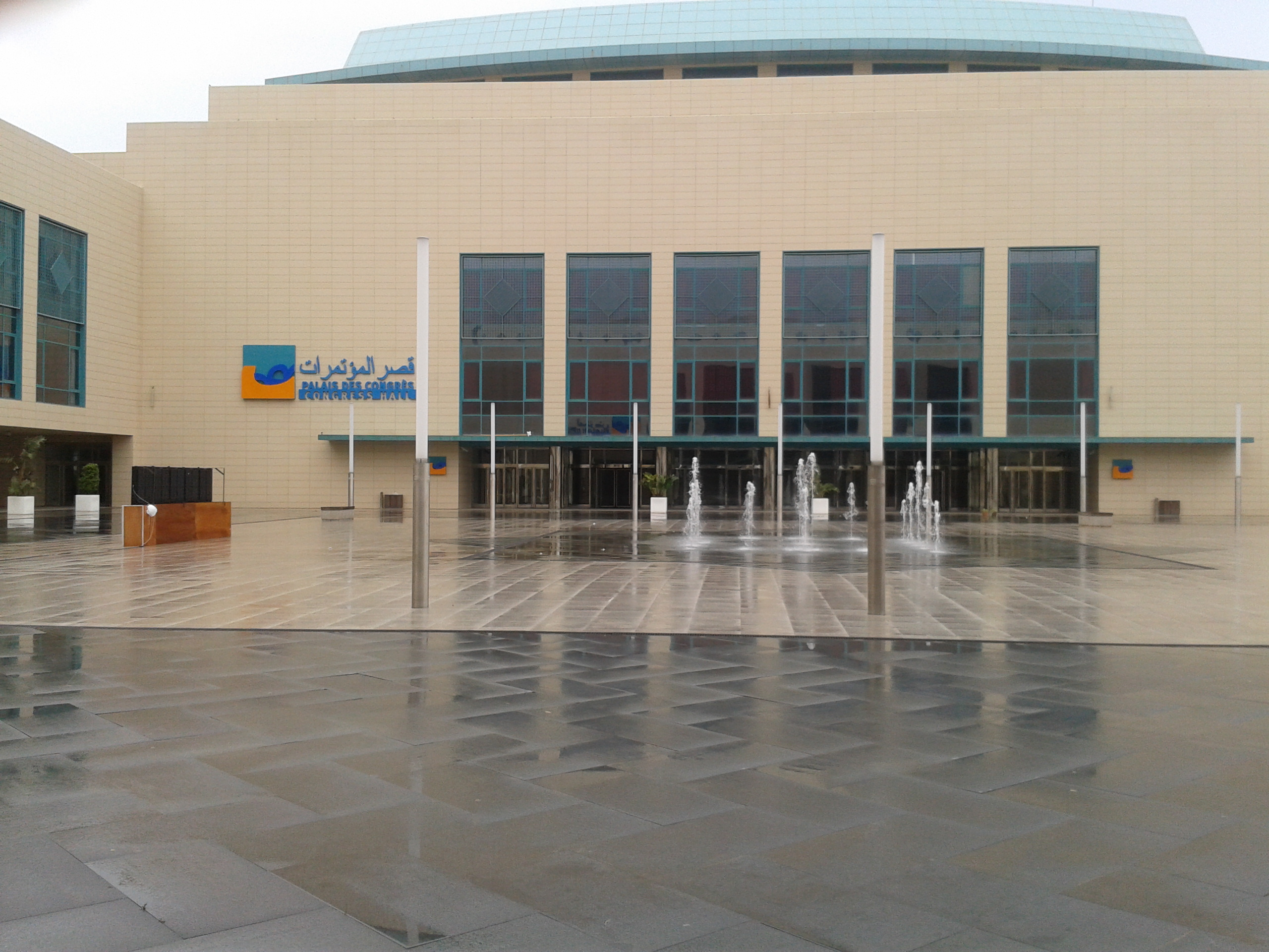 Conventions Center, Oran, Algeria